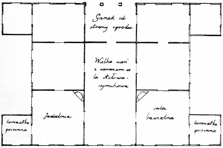 Image from Z. Gloger's "Encyklopedia staropolska" Plan of polish manor house in Kowalewszczyzna